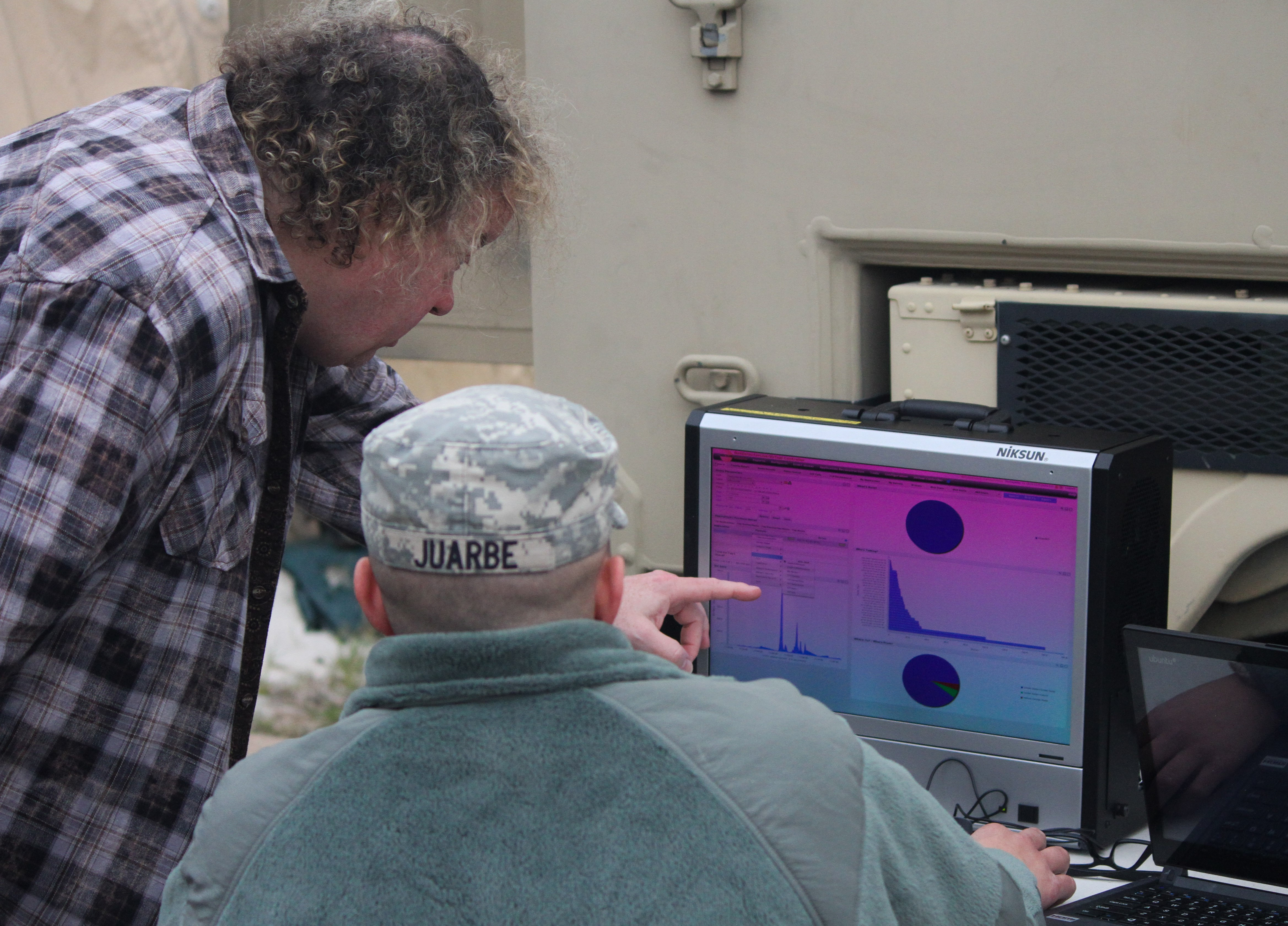 FORT GORDON, Ga.— Mr. Chris Mac-Stoker, distinguished engineer with NIKSUN, Inc. and Staff Sgt. Jeriel Juarbe, cyber operations noncommissioned officer, Cyber Protection Team 152, inspect network traffic for vulnerabilities while the CPT 152 joins the 35th Signal Brigade (Theater Tactical) in familiarizing with new equipment at Forward Operating Base Ready, Fort Gordon, Ga., Jan. 21, 2016. (U.S. Army photo by Staff Sgt. Ashley M. Cohen, 35th Signal Brigade (Theater Tactical) Public Affairs/Released